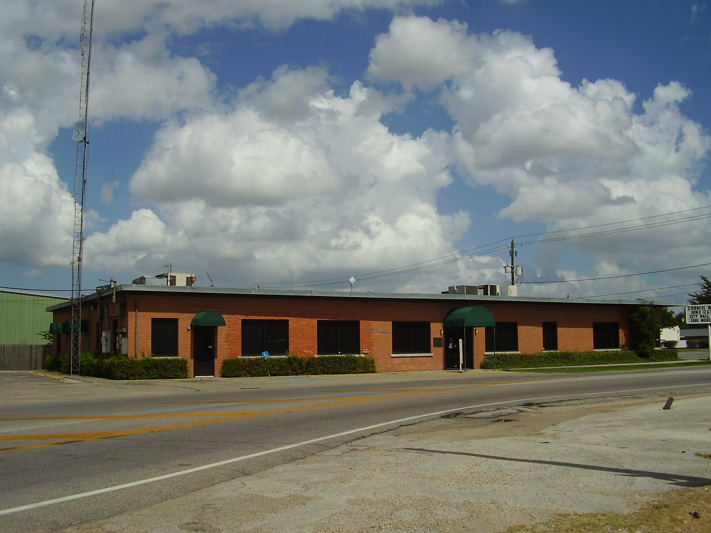 Jacinto City City Hall Annex - Former Jacinto City City Hall and Library